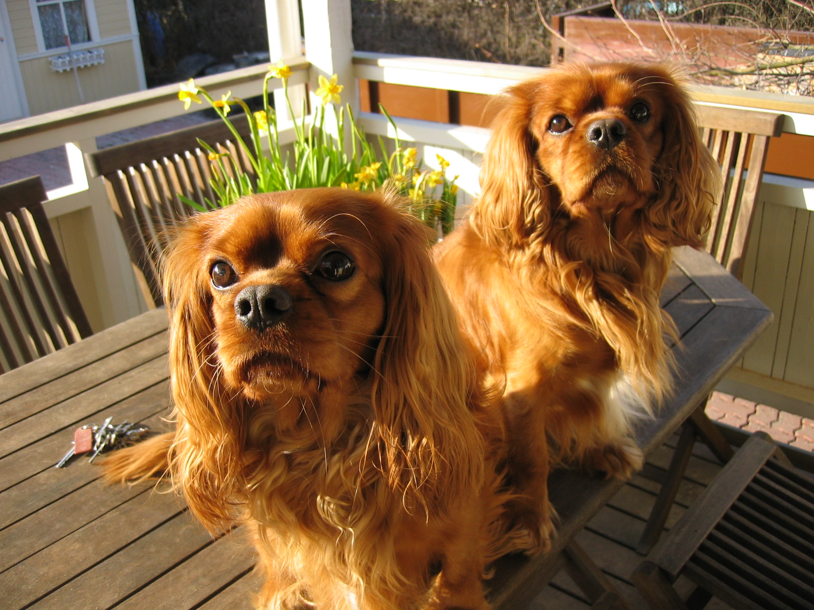 Two cavaliers sitting on a table